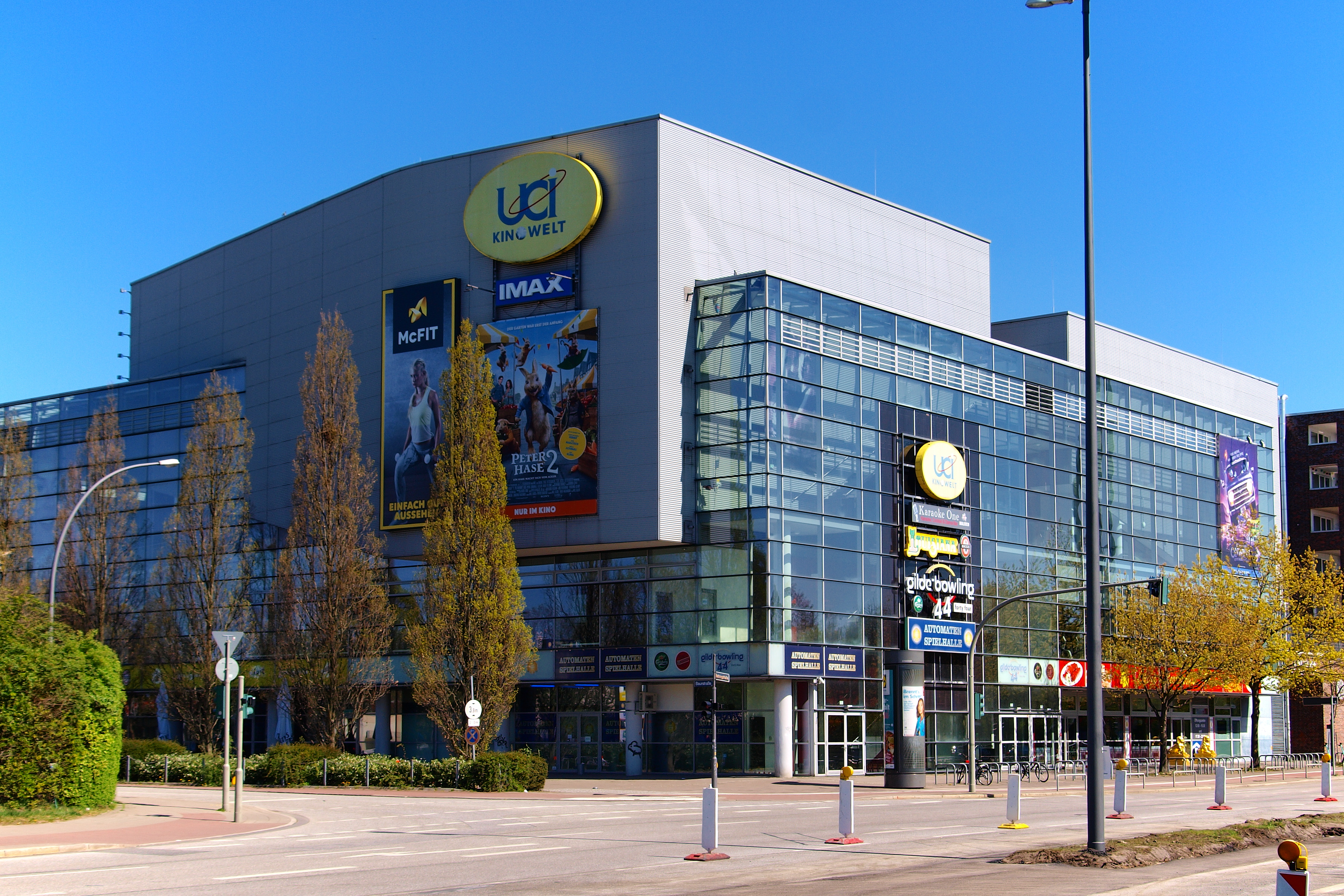 Cinema UCI Othmarschen Park. Baurstraße 2, Hamburg, Germany.